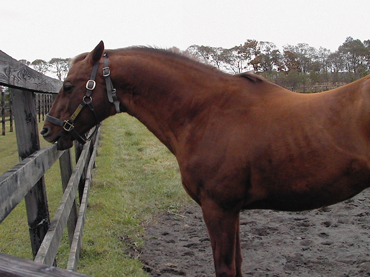 This horse is wearing an anti wind-sucking collar.